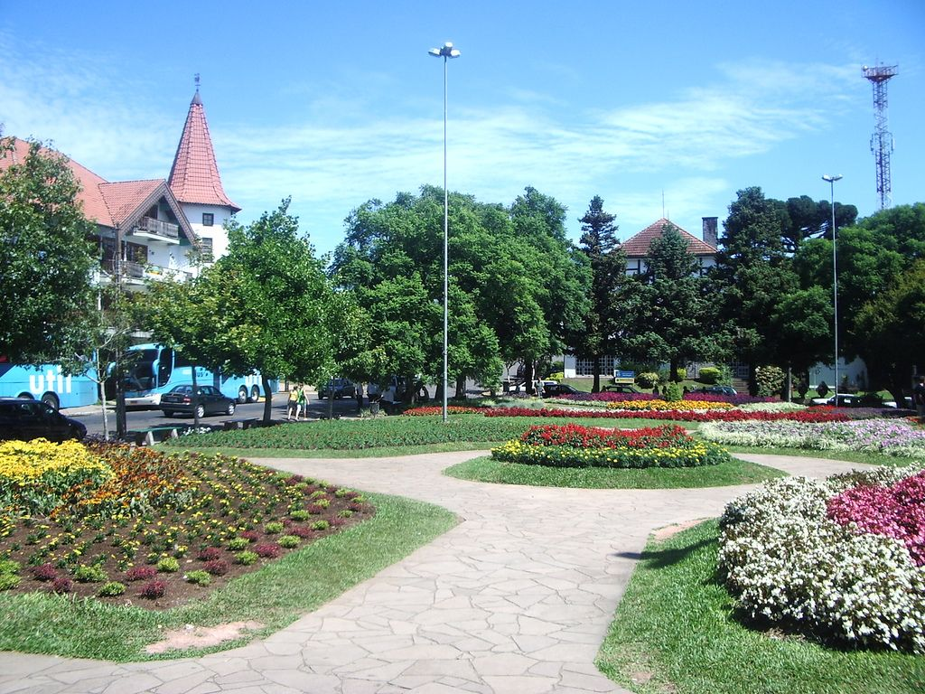 Nova Petropolis, a major German settlement in Southern Brazil.